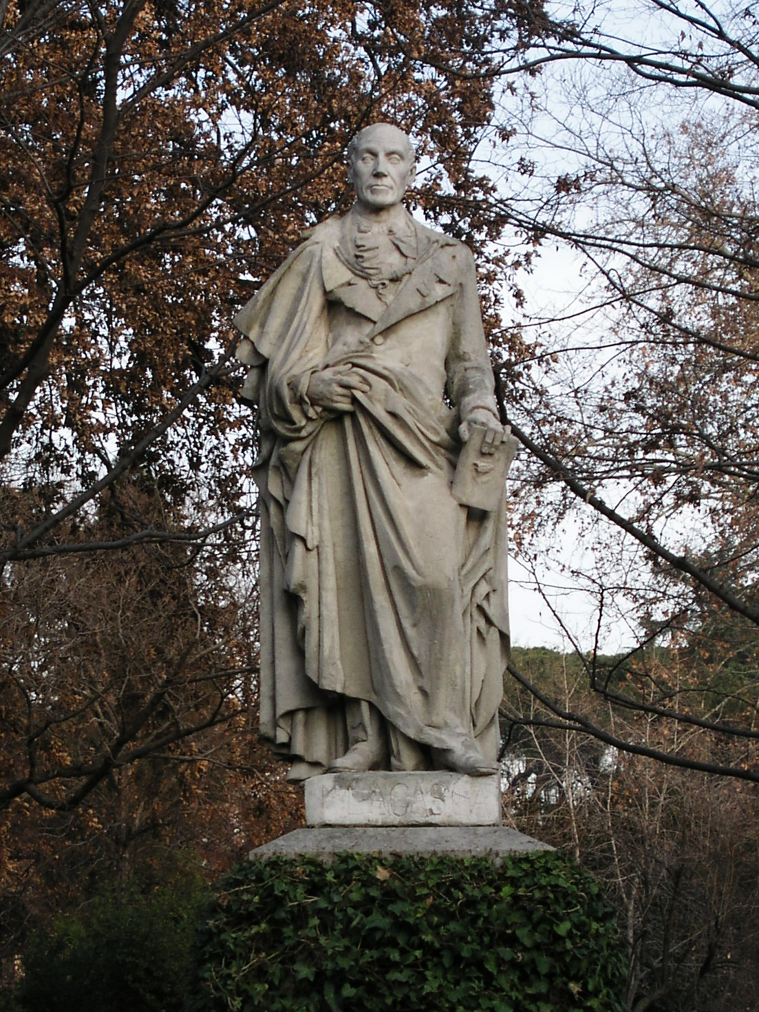 Statue of Mariano Lagasca y Segura (1776–1839) at the Royal Botanical Garden of Madrid (Spain). Sculpted by Ponciano Ponzano (1813–1877) and inaugurated in 1866.